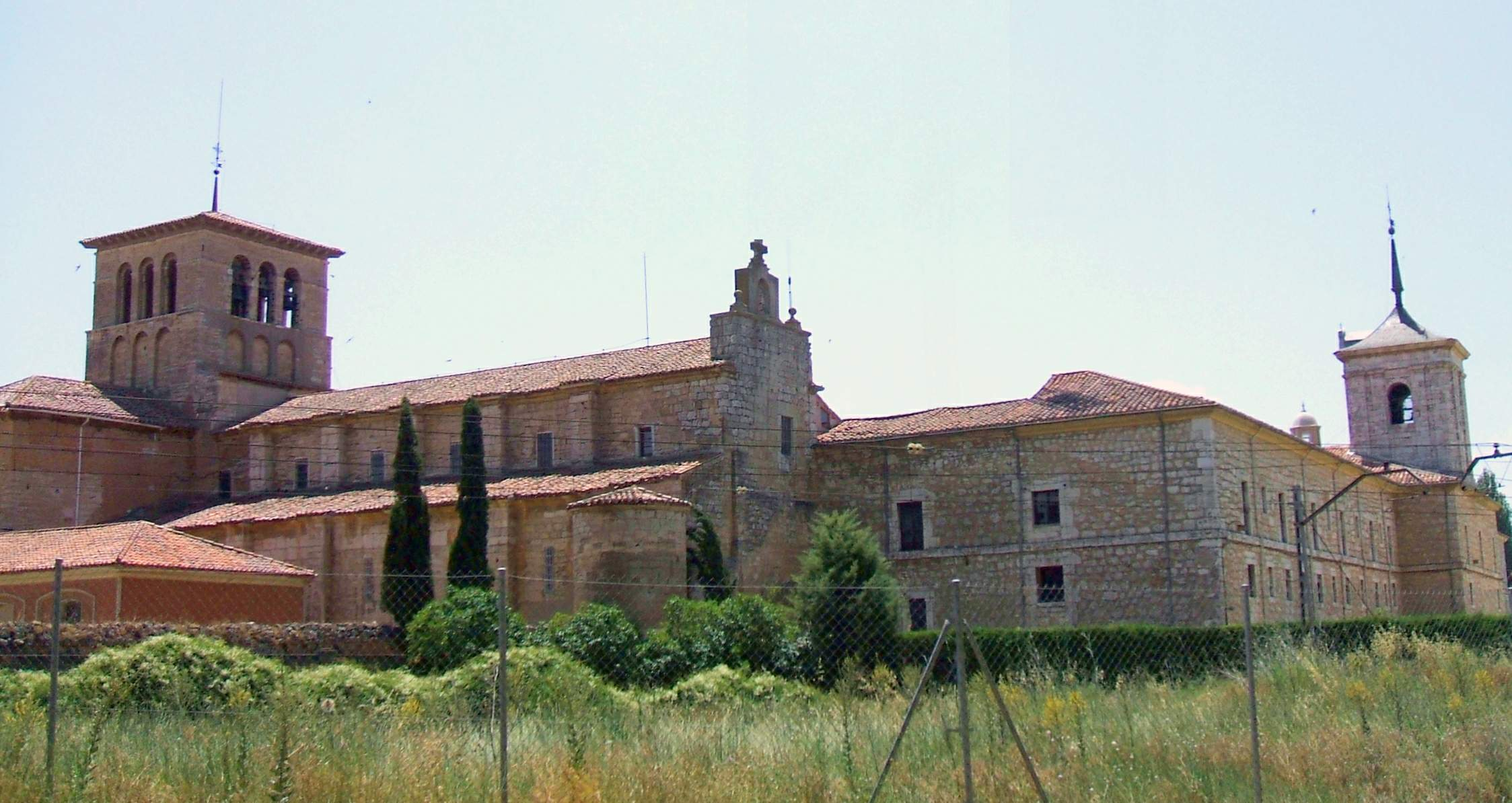 Monasterio de San Isidro de Dueñas (La Trapa), en Venta de Baños